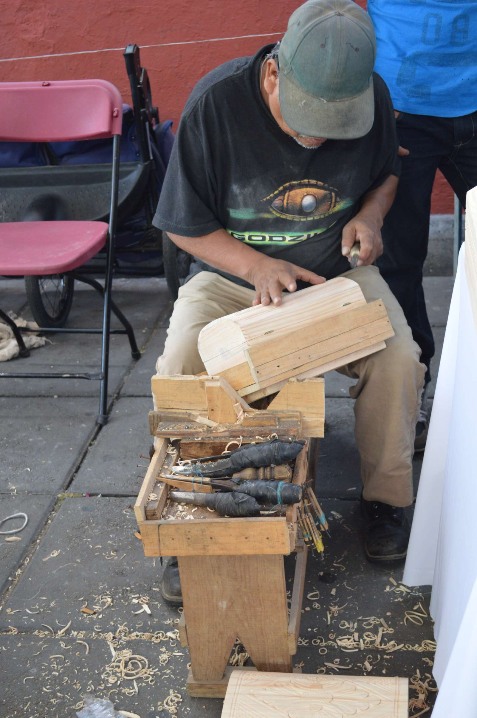 Artisan carving a wood box at the Tianguis de Domingo de Ramos in Uruapan, Michoacan, Mexico